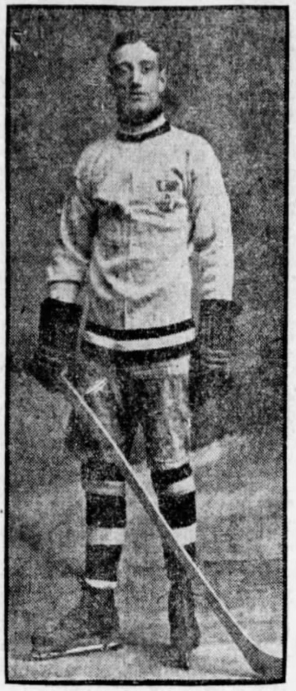 Canadian ice hockey player Billy Smith of the Ottawa Cliffsides.